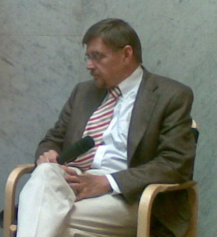 Max Engman in Akateeminen Kirjakauppa during the Night of the Arts event in Helsinki